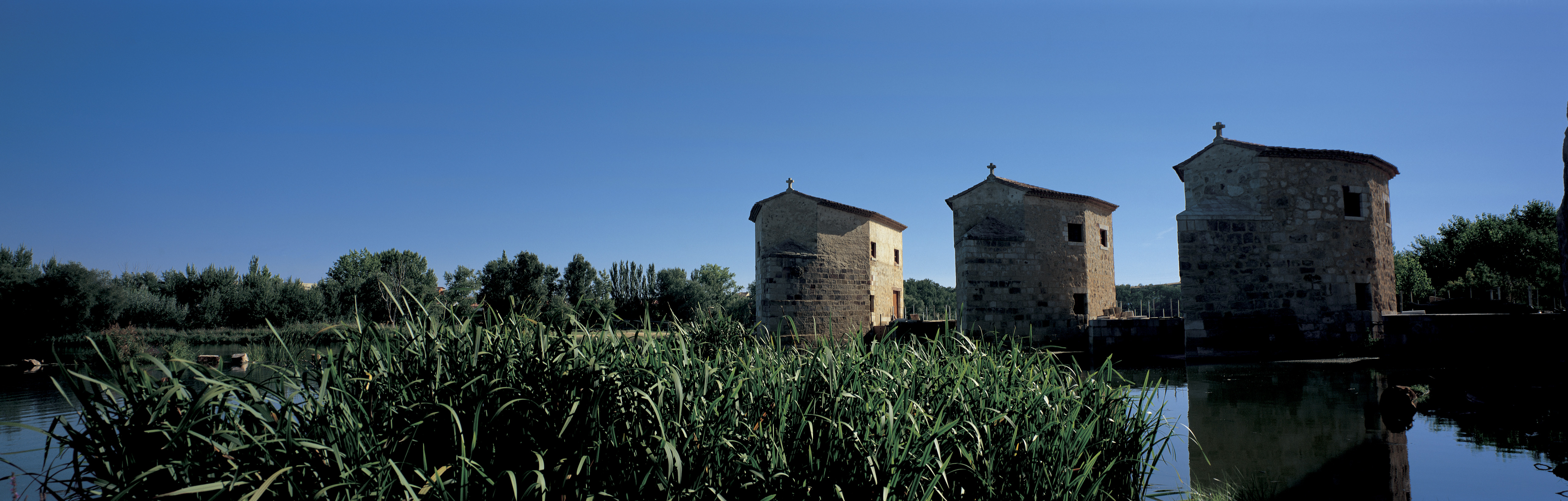 Aceñas de Olivares. Watermills in Zamora.